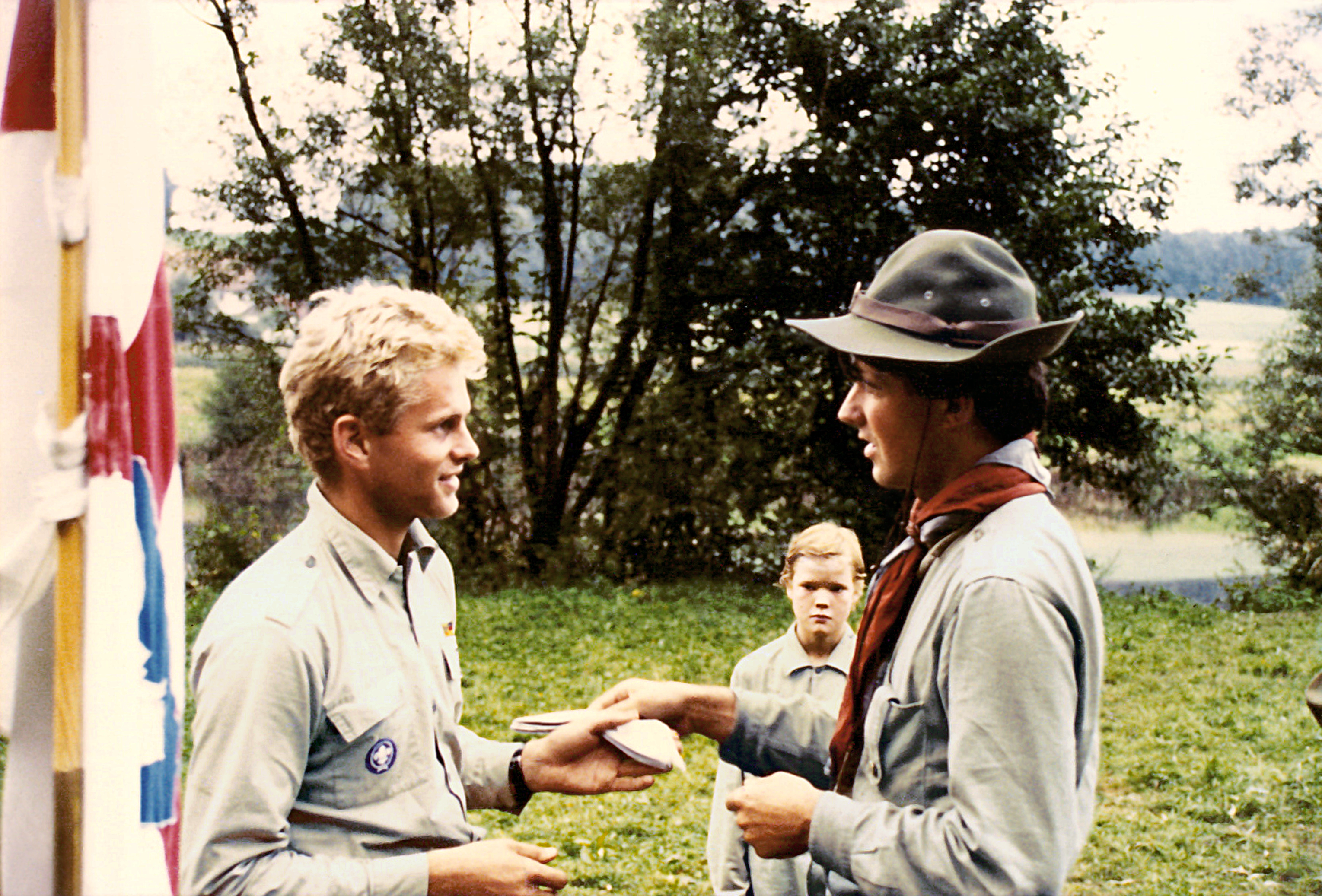 Summer camp of the DPSG Scouts of the Group "Egypt-Straßlach" north of Beucherling on the small river Regen, Bavaria, Germany, 1987. Promise celebration for a scoutmaster. Presentation of the neckerchief.